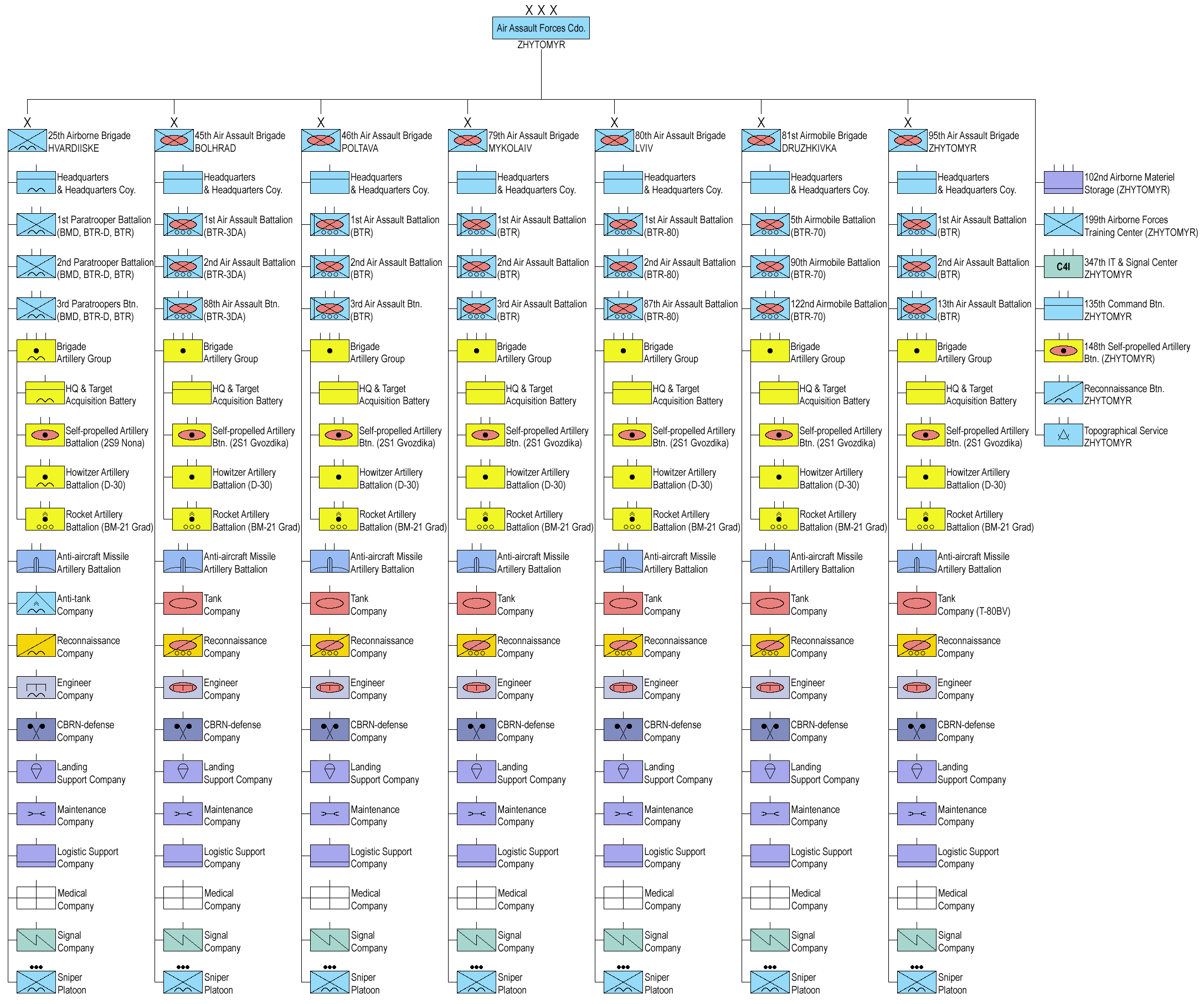 Structure of the Ukrainian Airmobile Forces in 2017 as per the best available Ukrainian language sources.